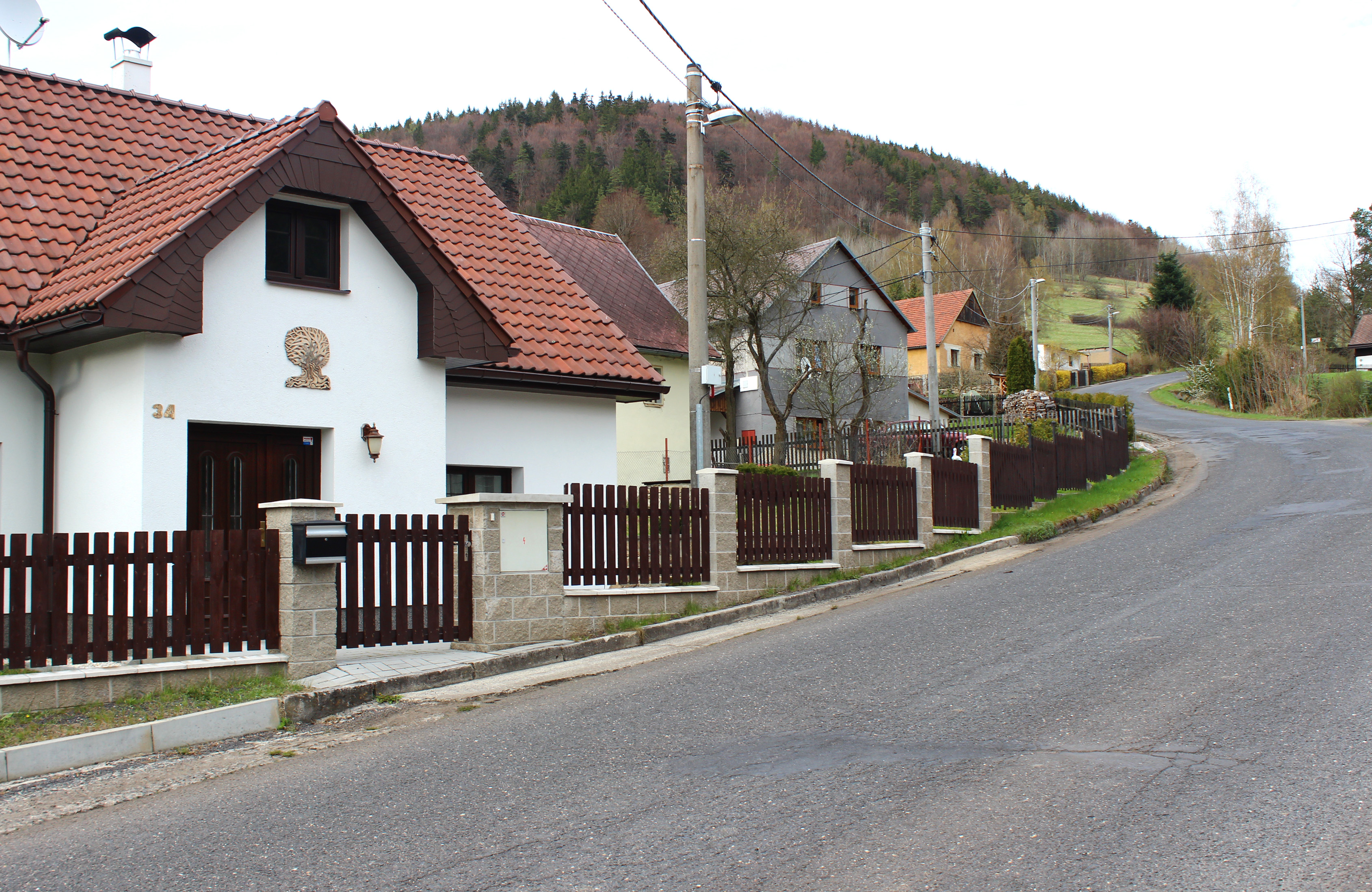 Vodná, part of Bečova nad Teplou, Czech Republic